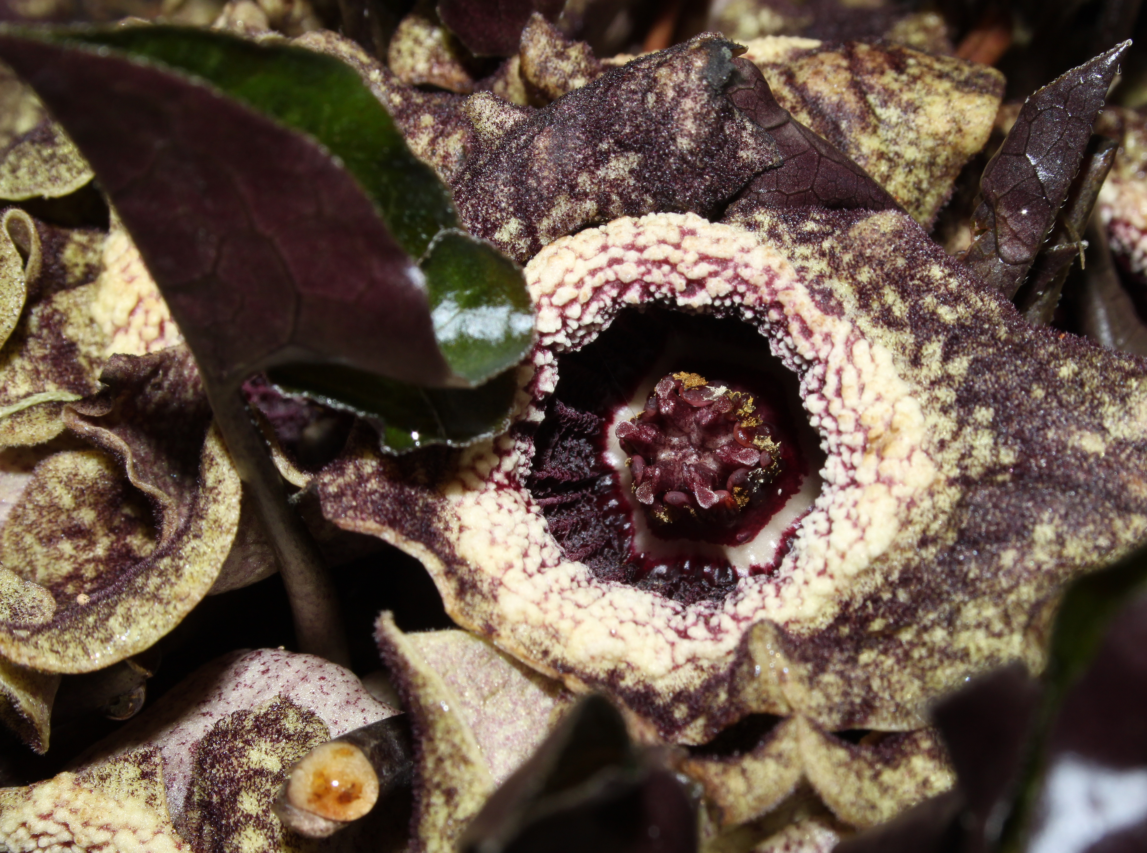 Chinese Wild Ginger, Showy Sichuan Ginger, Asarum splendens, Family: Aristolochiaceae